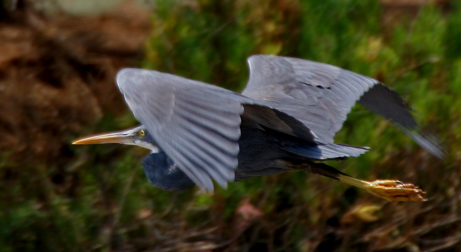 Western Reef Heron or Western Reef Egret Egretta gularis in Krishna Wildlife Sanctuary, Andhra Pradesh, India.